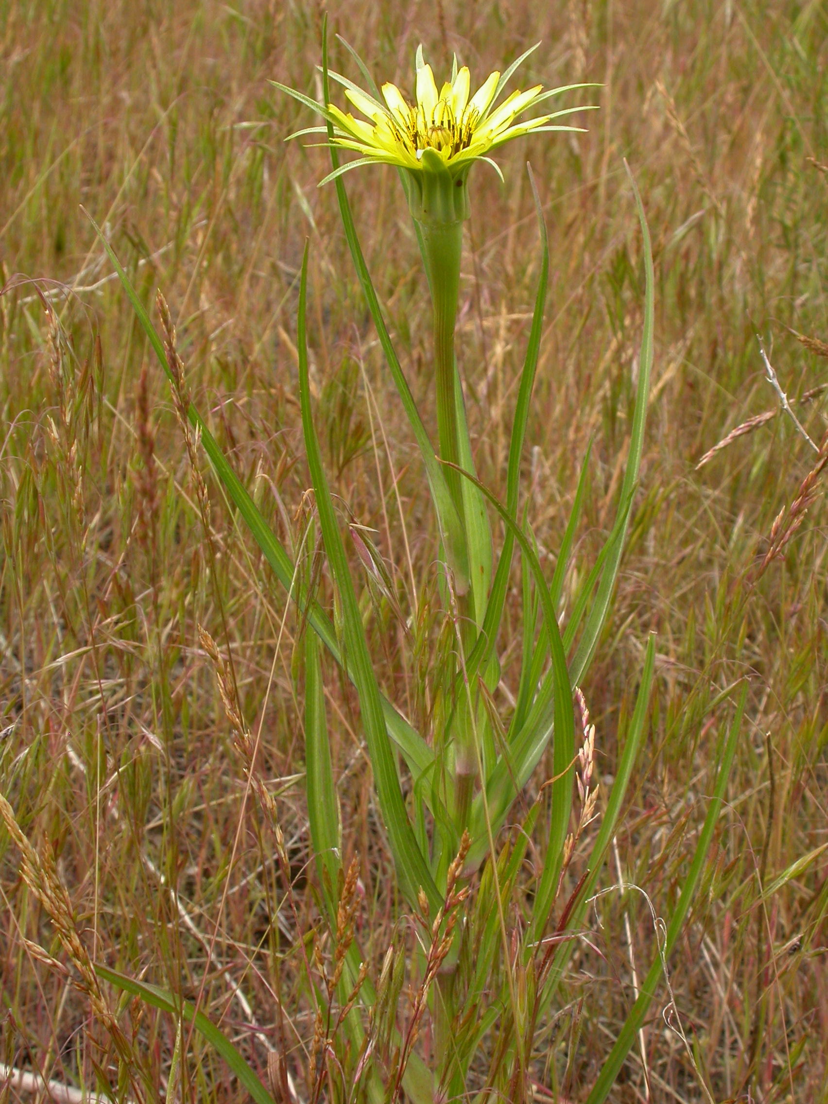 Western salsify colonizes disturbed sites but never becomes dominant except in the most disturbed of settings. Note the peduncle is swollen below the flowering head, a distinction of T. dubius.